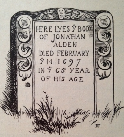 Illustration of Jonathan Alden’s gravestone from Historic Duxbury in Plymouth County Massachusetts, 1900.